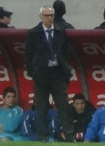 Cuper managing ordu at GS match